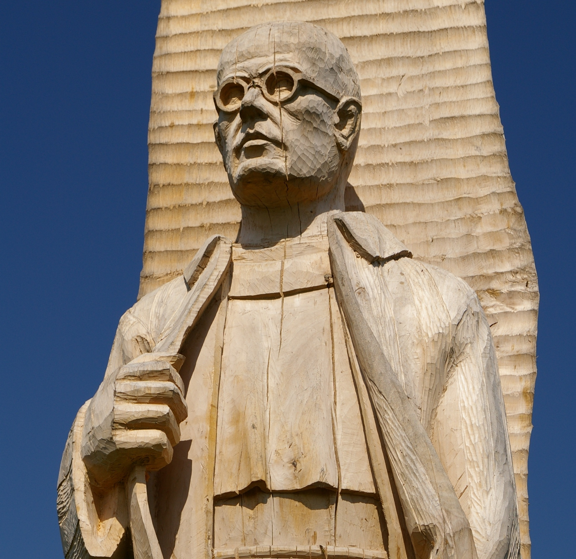 The wooden sculpture of Saint Maximilian Mary Kolbe in Wiślica